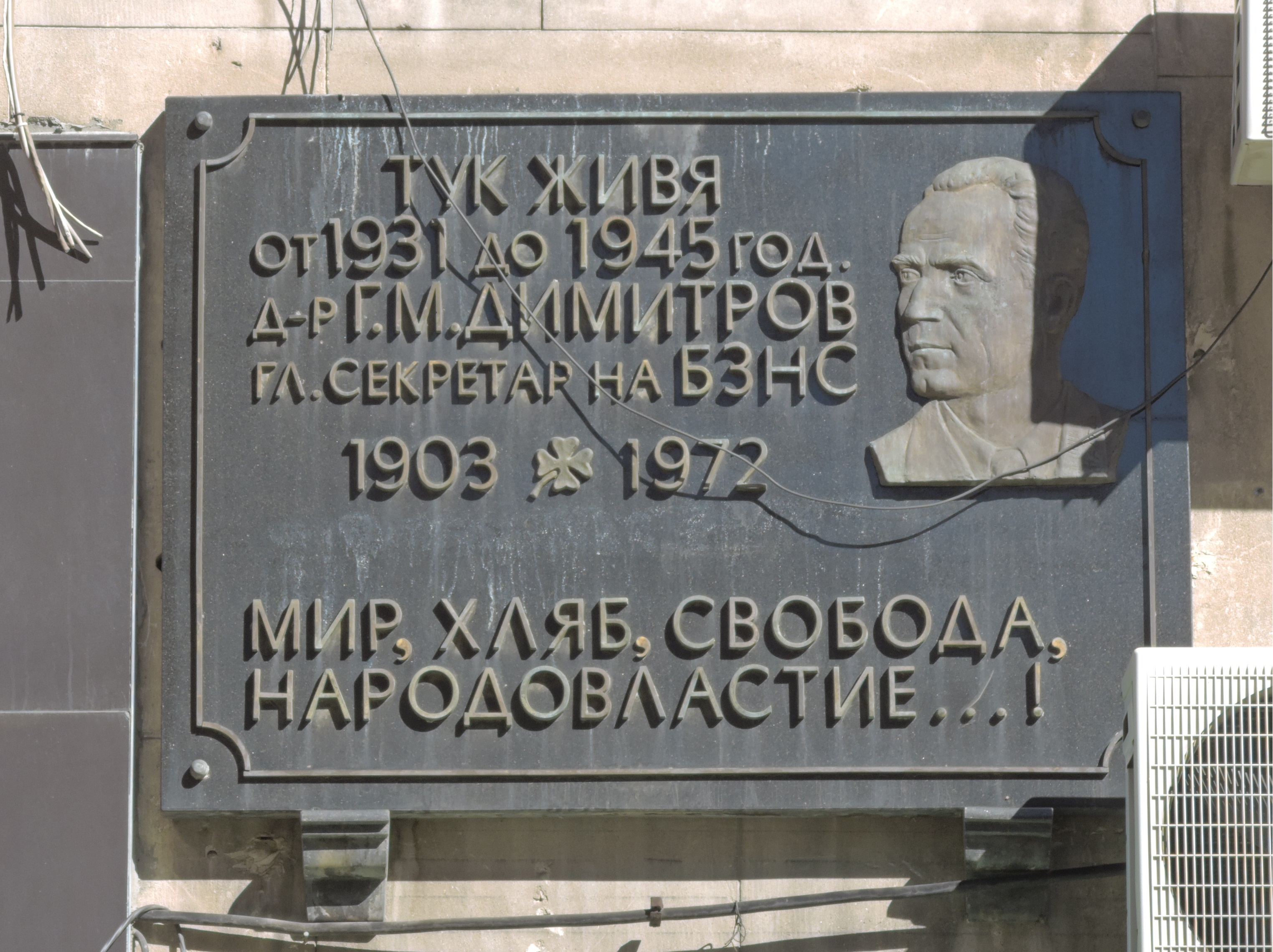 Memorial plaque on the facade of the house on 31 "Graf Ignatiev" Str., Sofia, where the Bulgarian politician G. M. Dimitrov lived from 1931 to 1945.